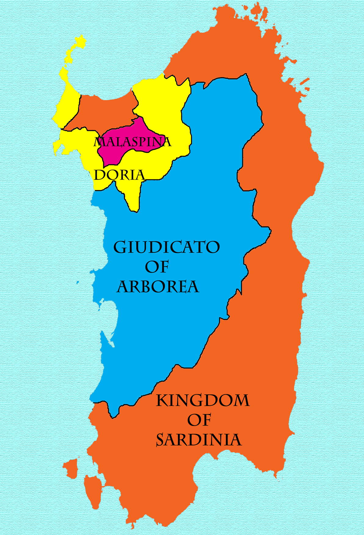 Political map of Sardinia in 1324 after the Aragonese conquest of the sardinian territories of the Republic of Pisa . Informations taken from : Francesco Cesare Casula - La Storia di Sardegna (1994)